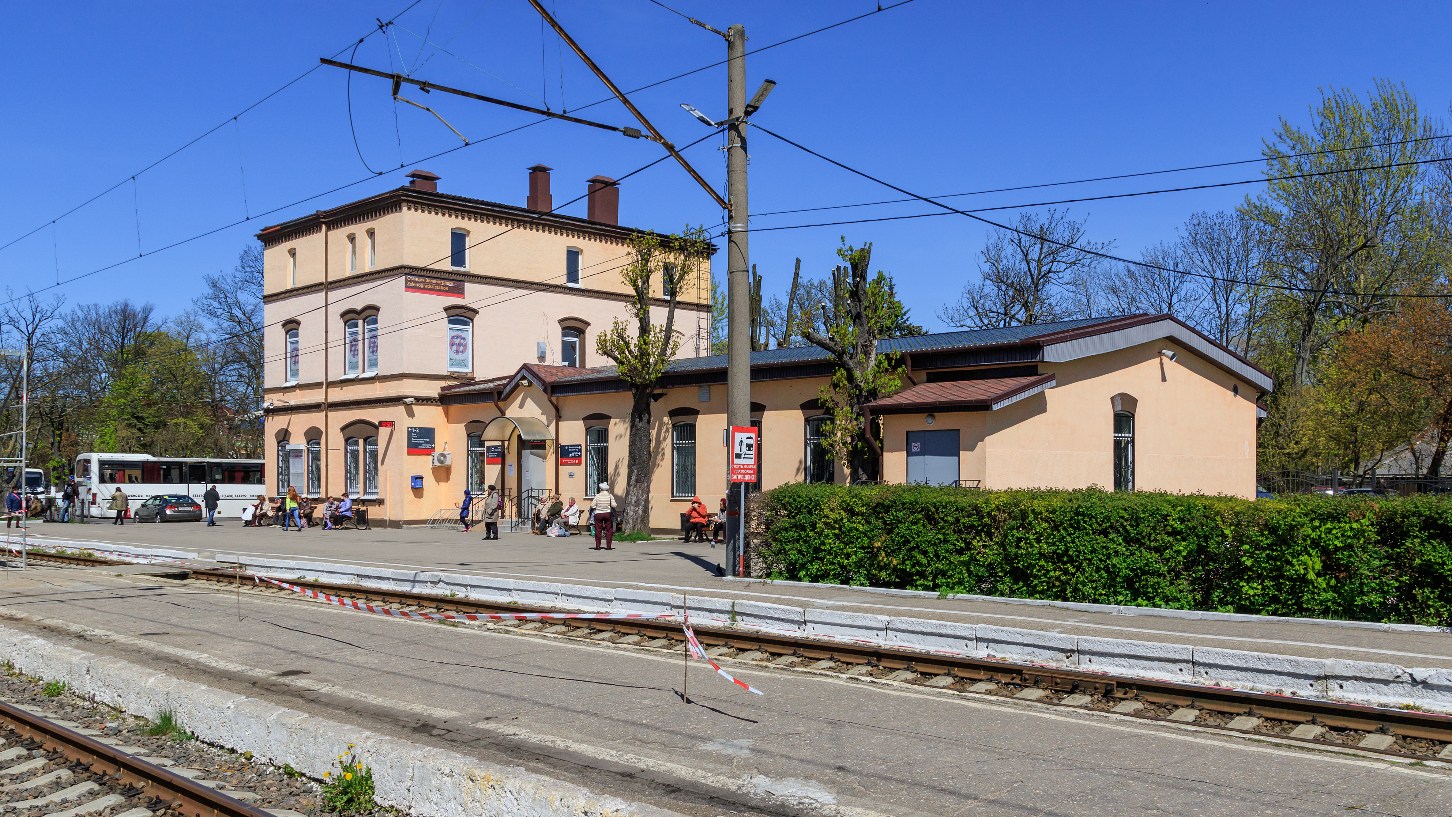 Railway station in Zelenogradsk formerly Cranz / Kaliningrad Oblast (Russia).